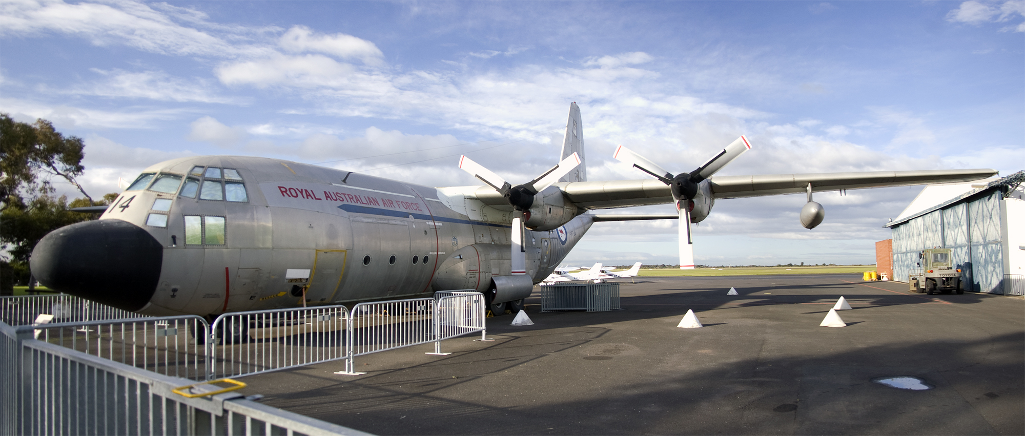 Lockheed C-130A Hercules (A97-214) at the RAAF Museum in RAAF Williams Point Cook.